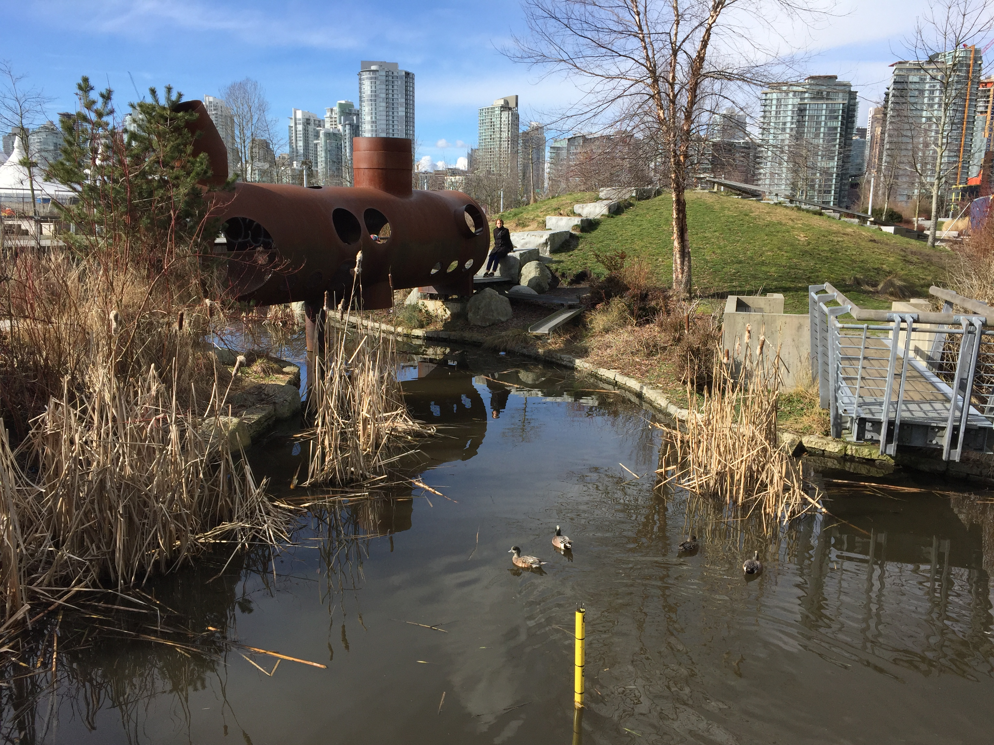 South view of Hinge Park, taken from IPhone 6